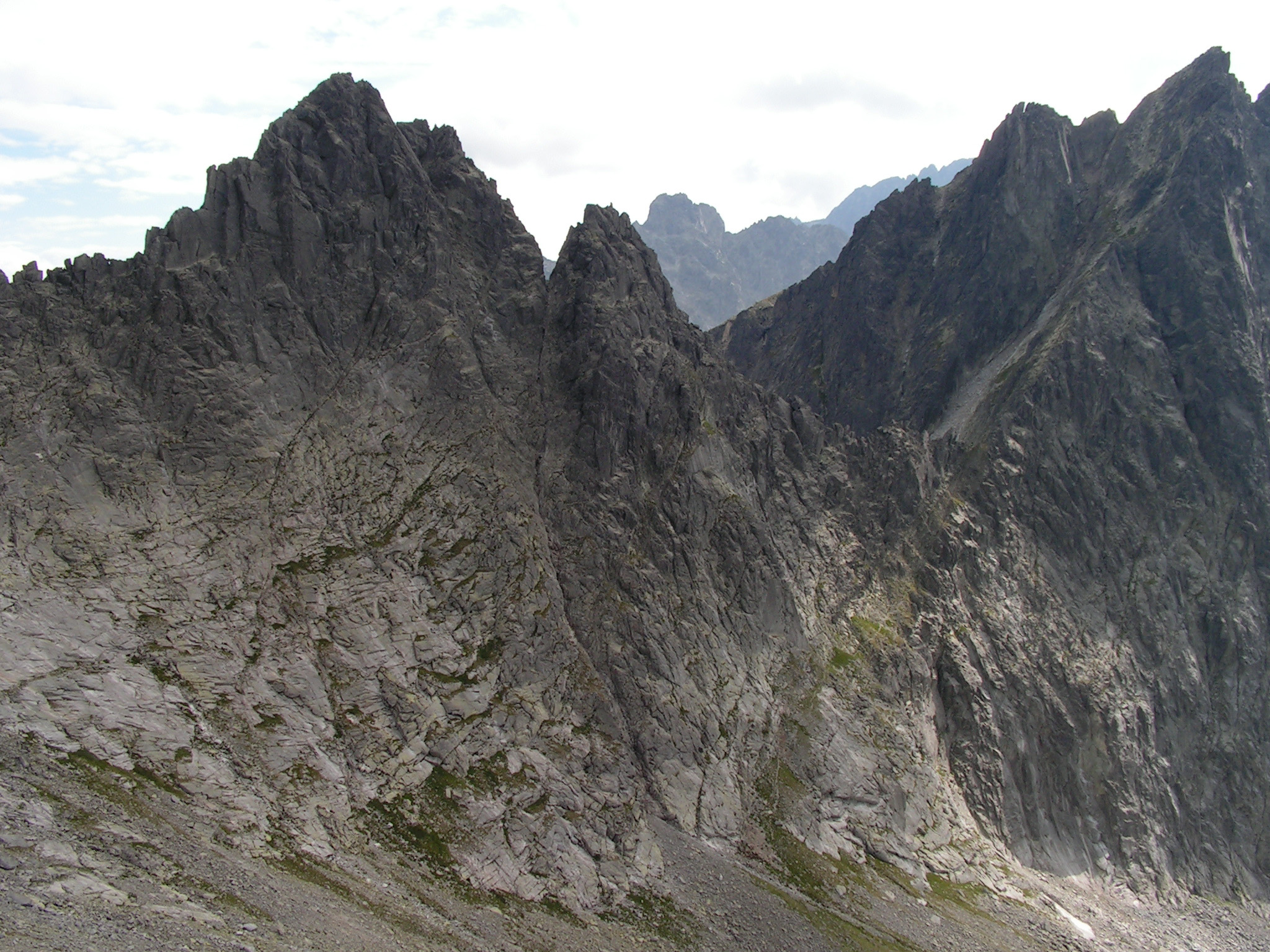 Ostrý štít, Malý Ostrý štít, Javorové sedlo and Javorový štít, in the background Bradavica